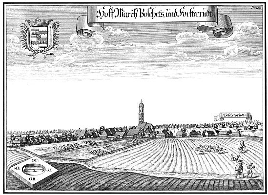 Forstenried, Hofmark, and Hofmark Poschetsried by Michael Wening (1645 - 1718)